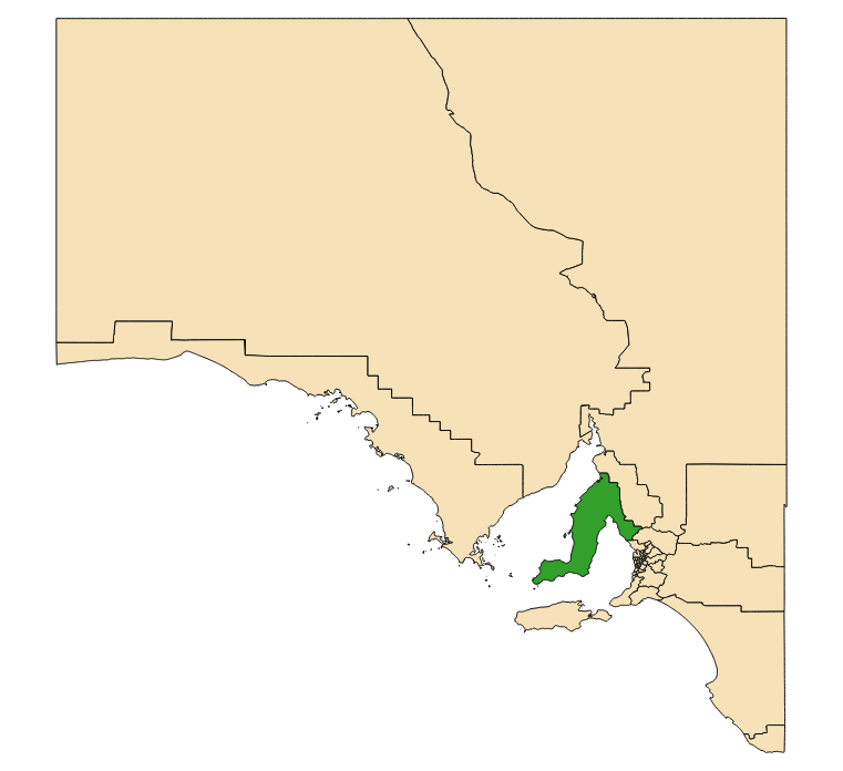 Electoral district 2018 boundaries shown in green